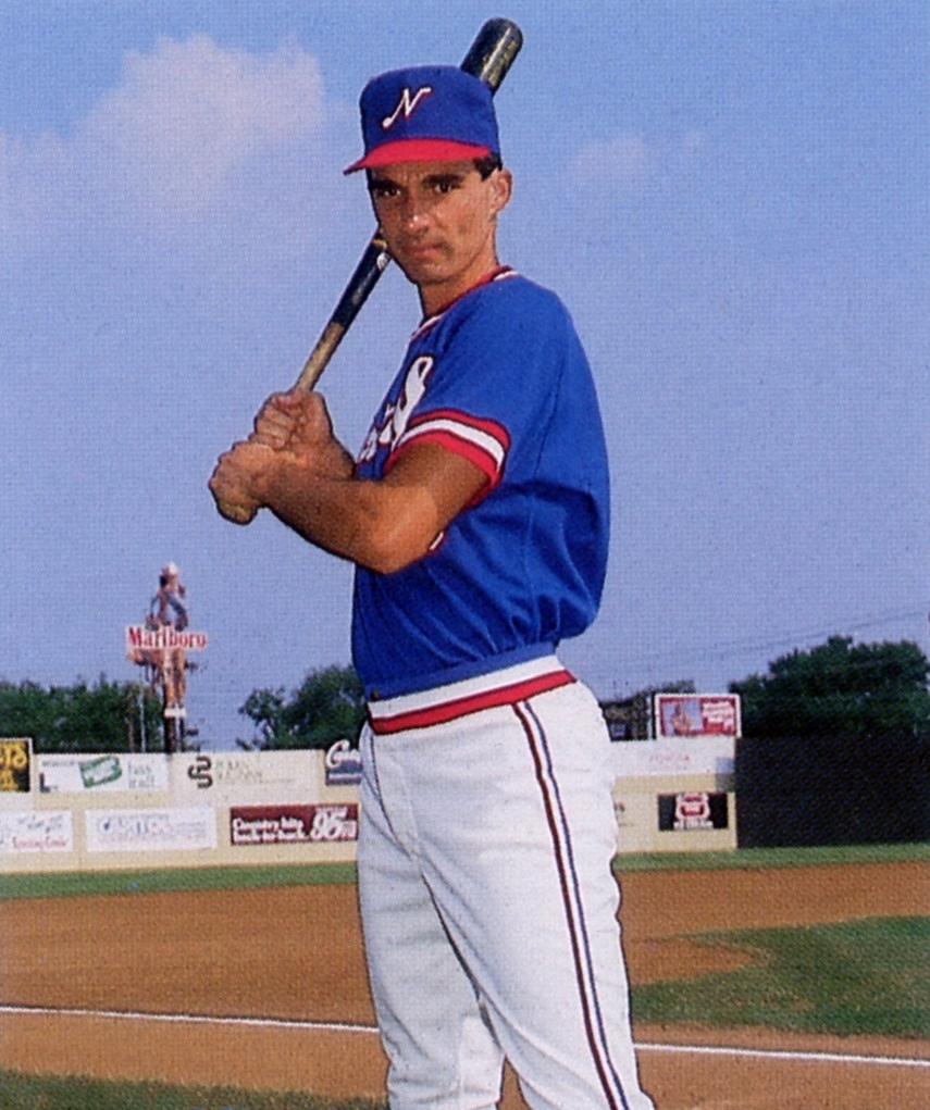 First baseman Chris Nyman of the 1986 Nashville Sounds Minor League Baseball team of the American Association